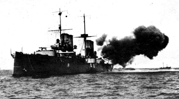 San Giorgio firing her guns during the Italo-Turkish War